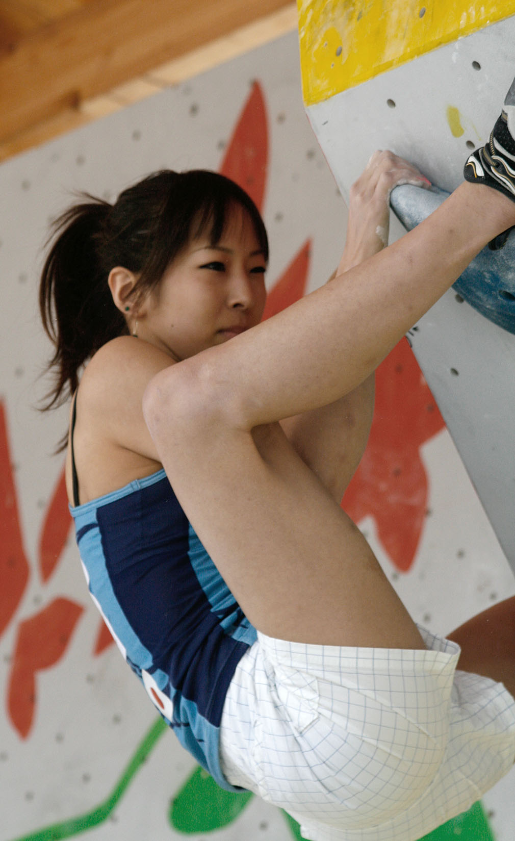 Akiyo Noguchi during the semi-finals at the IFSC Boulder Worldcup Vienna 2010.